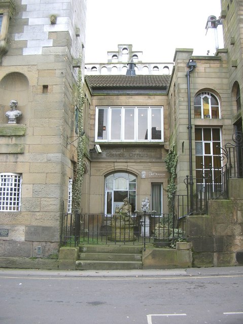 The Belle Epoque Built as Council offices (see under large window) and Coffee House. The left hand side is the base of the Gaskell Memorial Tower with a bust of Elizabeth Gaskell in the niche.